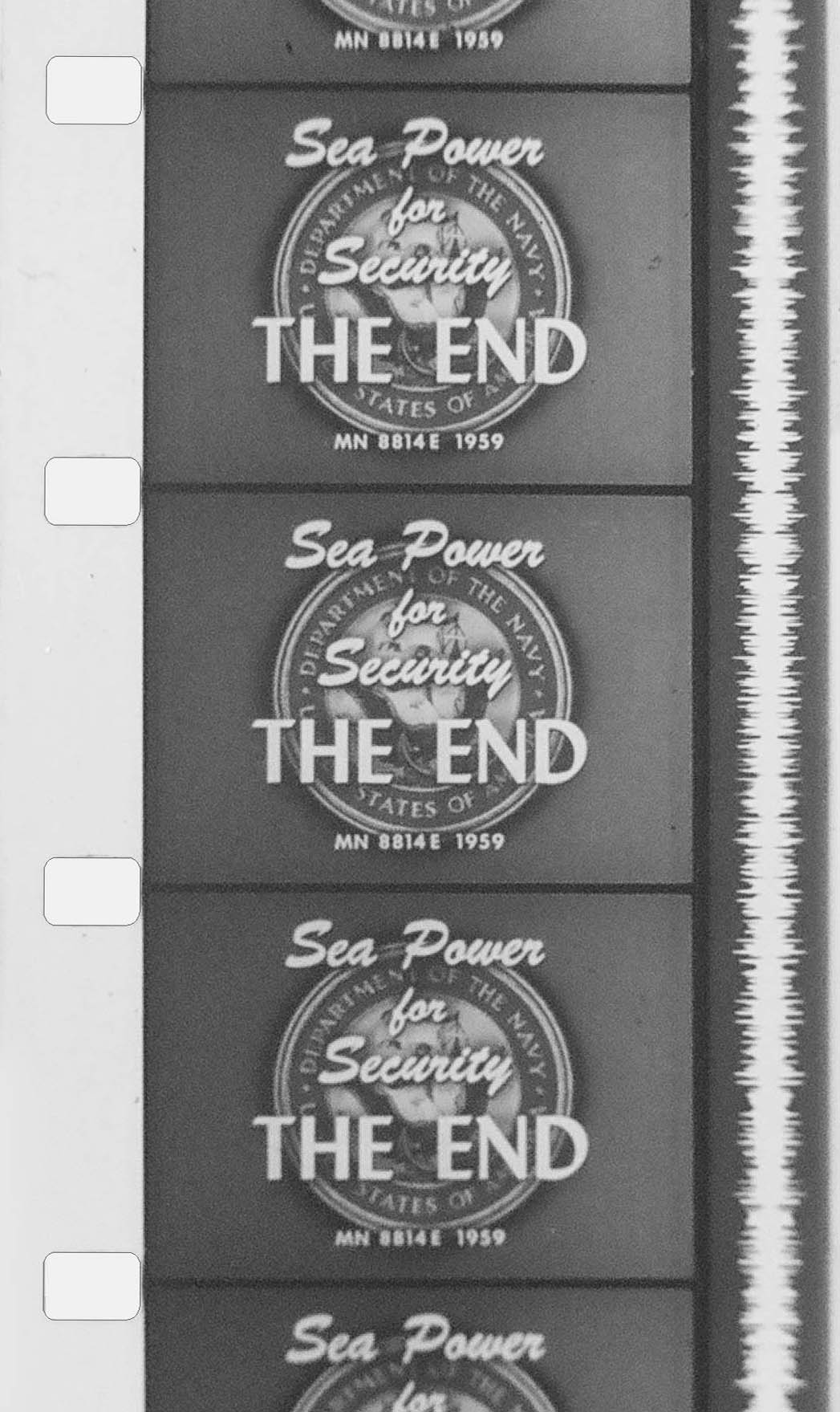 This photo was made by me and my wife, and is released into the public domain as far as we are concerned. The underlying image is part of an official U.S. Navy training film, and so would be considered a public work of and by the U.S. government. The picture shows a 16mm film, with sound track.